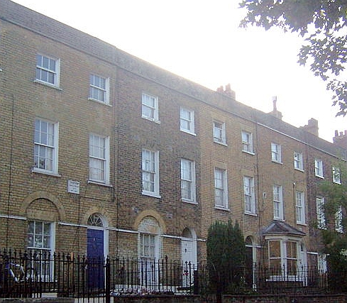 Chatham is a town in ,North Kent ,England. Ordnance Terrace a childhood home of Charles Dickens.